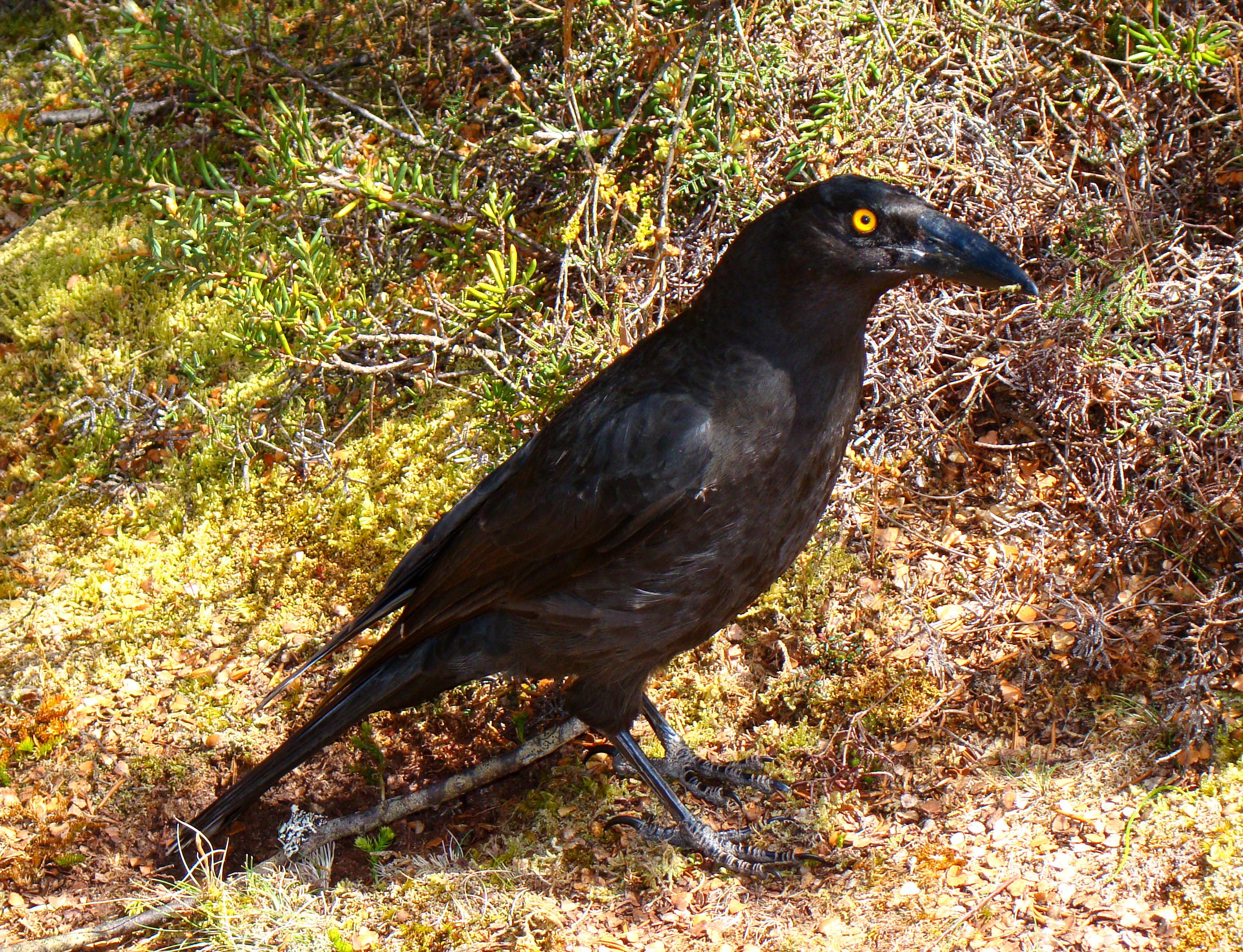 Currawong hanging around near Windermere Lake along the Overland Track in the Tasmanian Highlands.